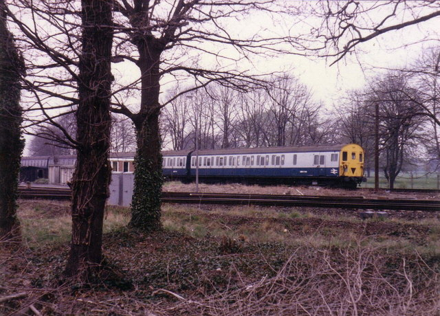 Train near Fulwell Depot, 1986 Slam-door type commuter train in the depot at Strawberry Hill in 1986. The picture was taken from the footpath beside the railway, and part of the golf course can be seen in the distance. This whole area, comprising railway land, a cemetery, allotments and a golf course is a haven for wildlife.